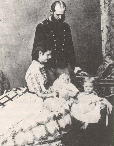 Princess Maria Annunziata of Bourbon-Two Sicilies, Archduke Karl Ludwig of Austria and two of their sons.